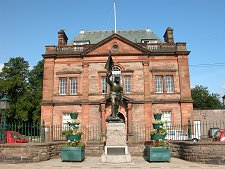 Statue of Fletcher out side Victoria Halls, Selkirk